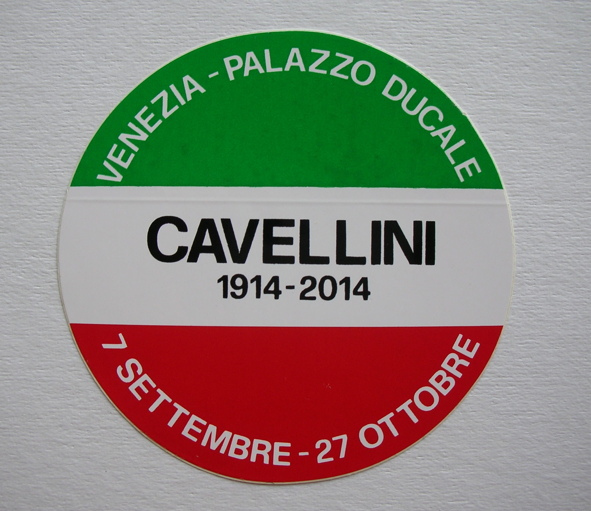 One of Guglielmo Achille Cavellini's famous stickers distributed extensively throughout the world.